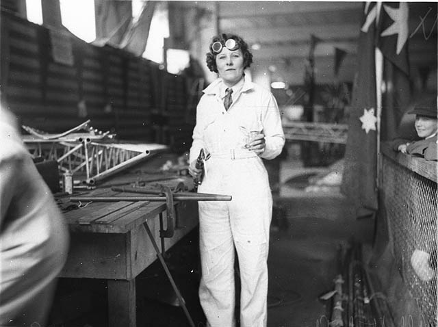 Format: Gelatin silver photonegative Notes: May Bradford was the first woman pilot to hold “A” & “B” ground engineer’s licences in Australia From the collections of the Mitchell Library, State Library of New South Wales Information about photographic collections of the State Library of New South Wales .au/search/SimpleSearch.aspx Persistent url: .au/item/itemDetailPaged.aspx?itemID=6513